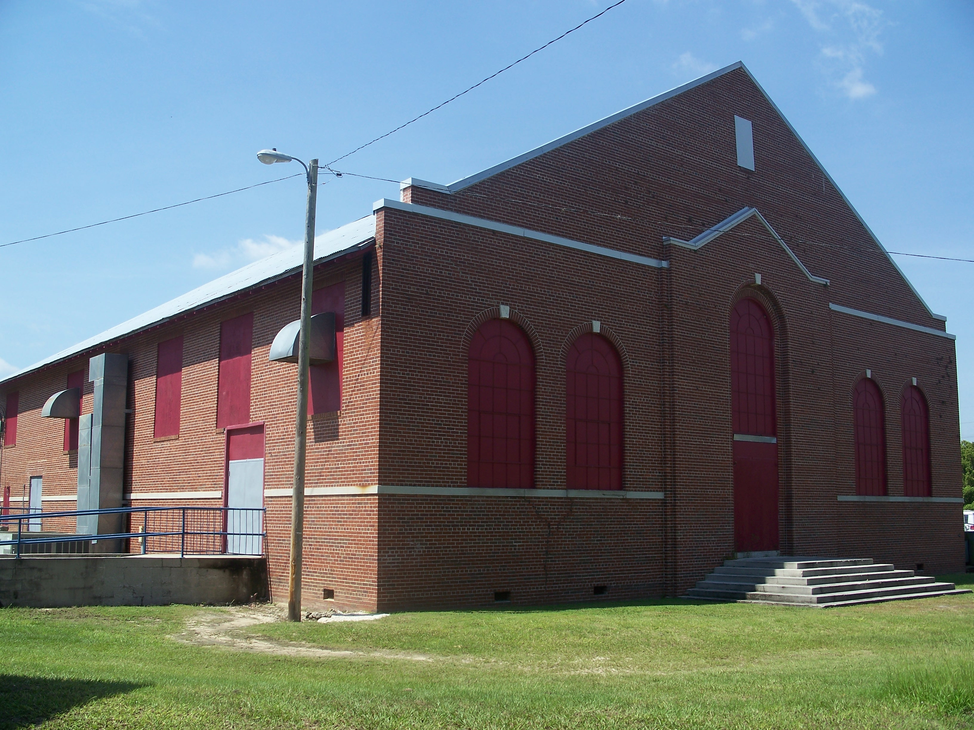 Weirsdale, Florida: The gymnasium of the old elementary school. It's now a country music venue called The Orange Blossom Opry.